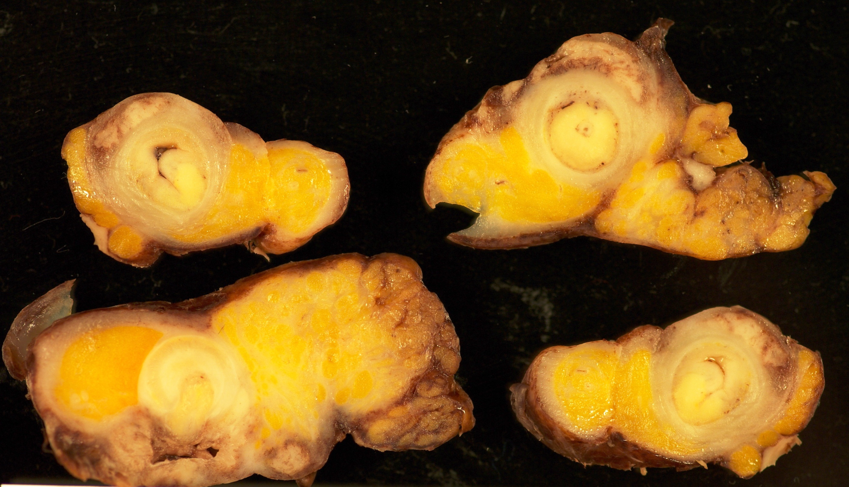 Appendiceal carcinoid (Dr. Robertson)